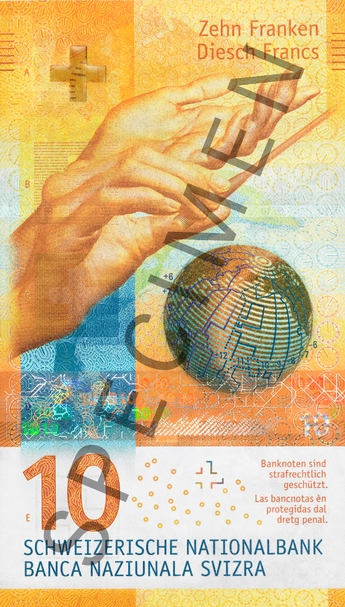 Front of the Swiss 10-franc banknote, ninth series (issued in 2017).